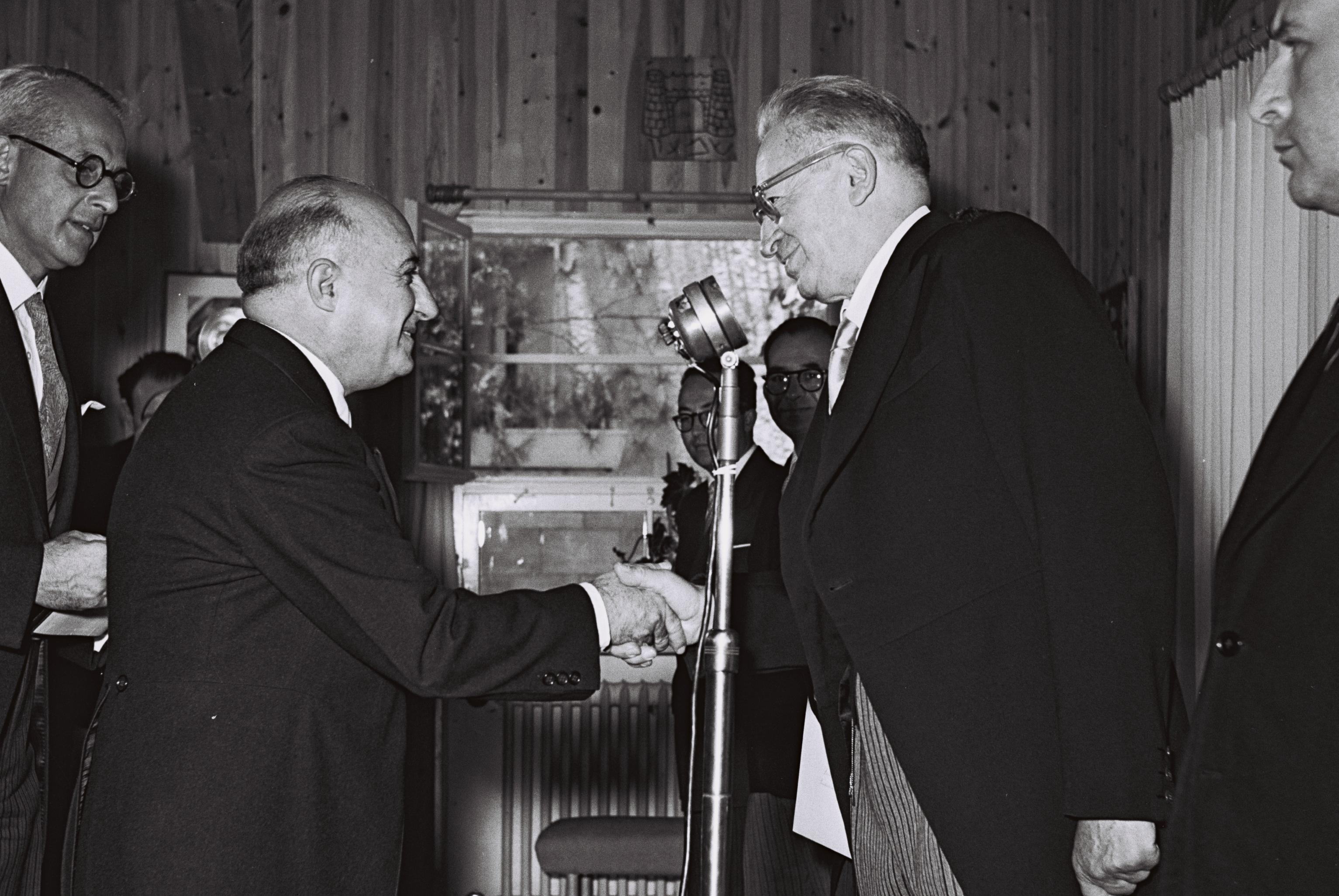 Dr. G. Garcia Granados Guatemala's min. to Israel meets pres. Yitzhak Ben Zvi, at Beit HaNassi in Jerusalem